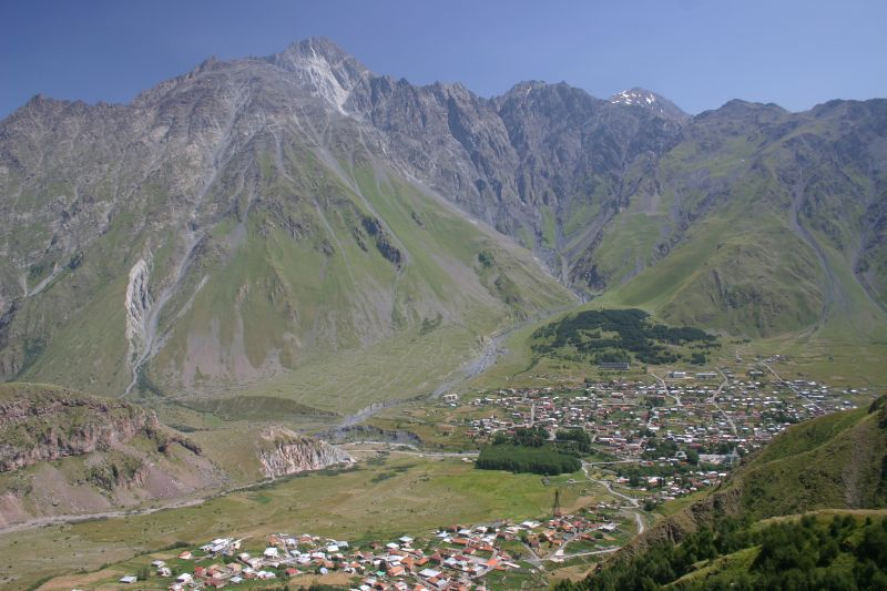 Stepantsminda and the mountains around